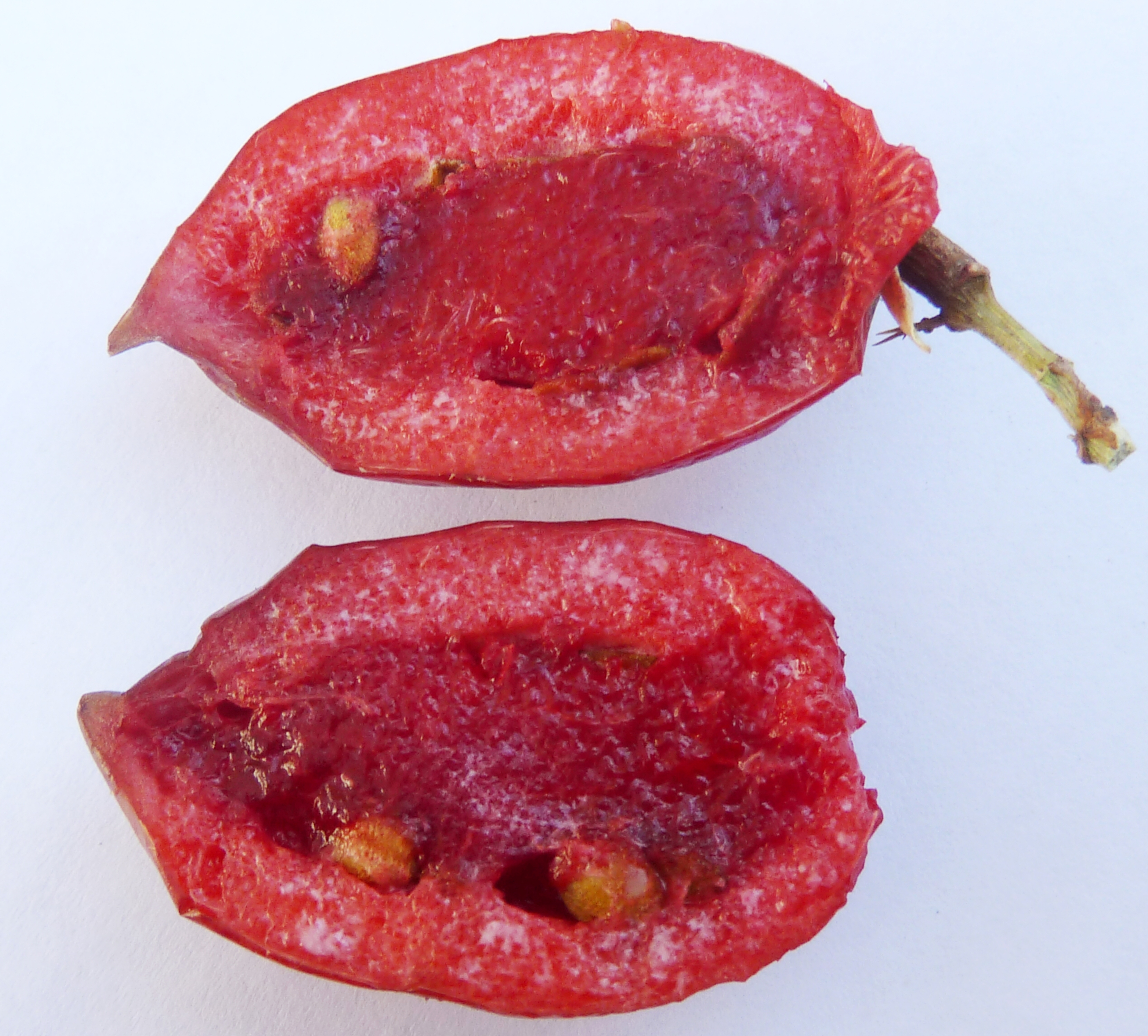 Cross section of a ripe fruit of a Big num-num at the TUT campus, Pretoria